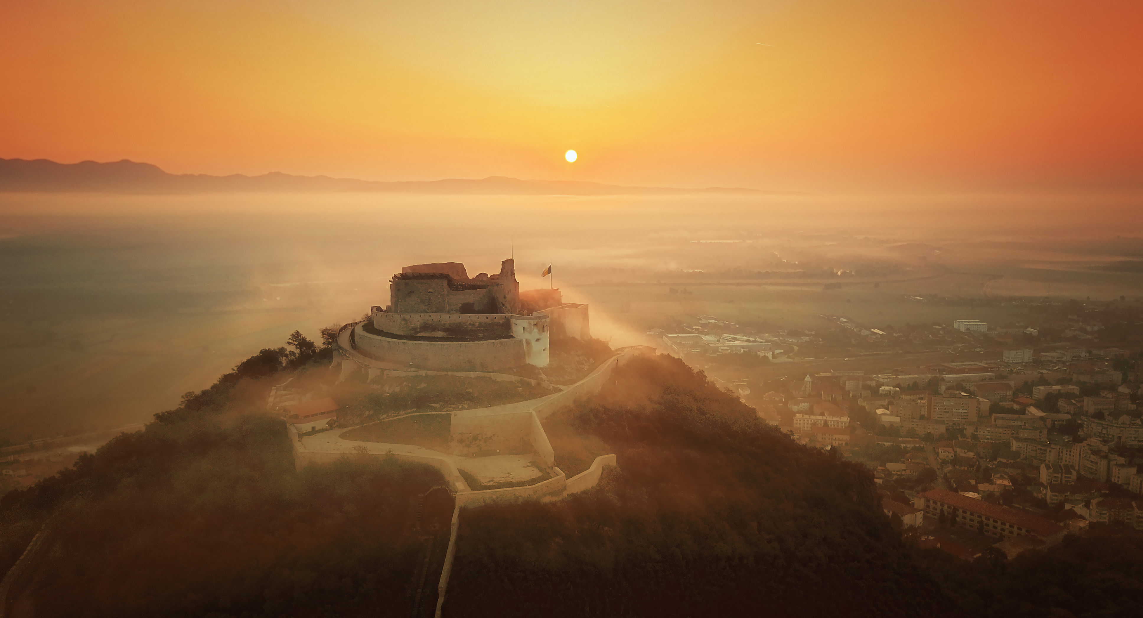 Deva, medieval fortress, at sunrise